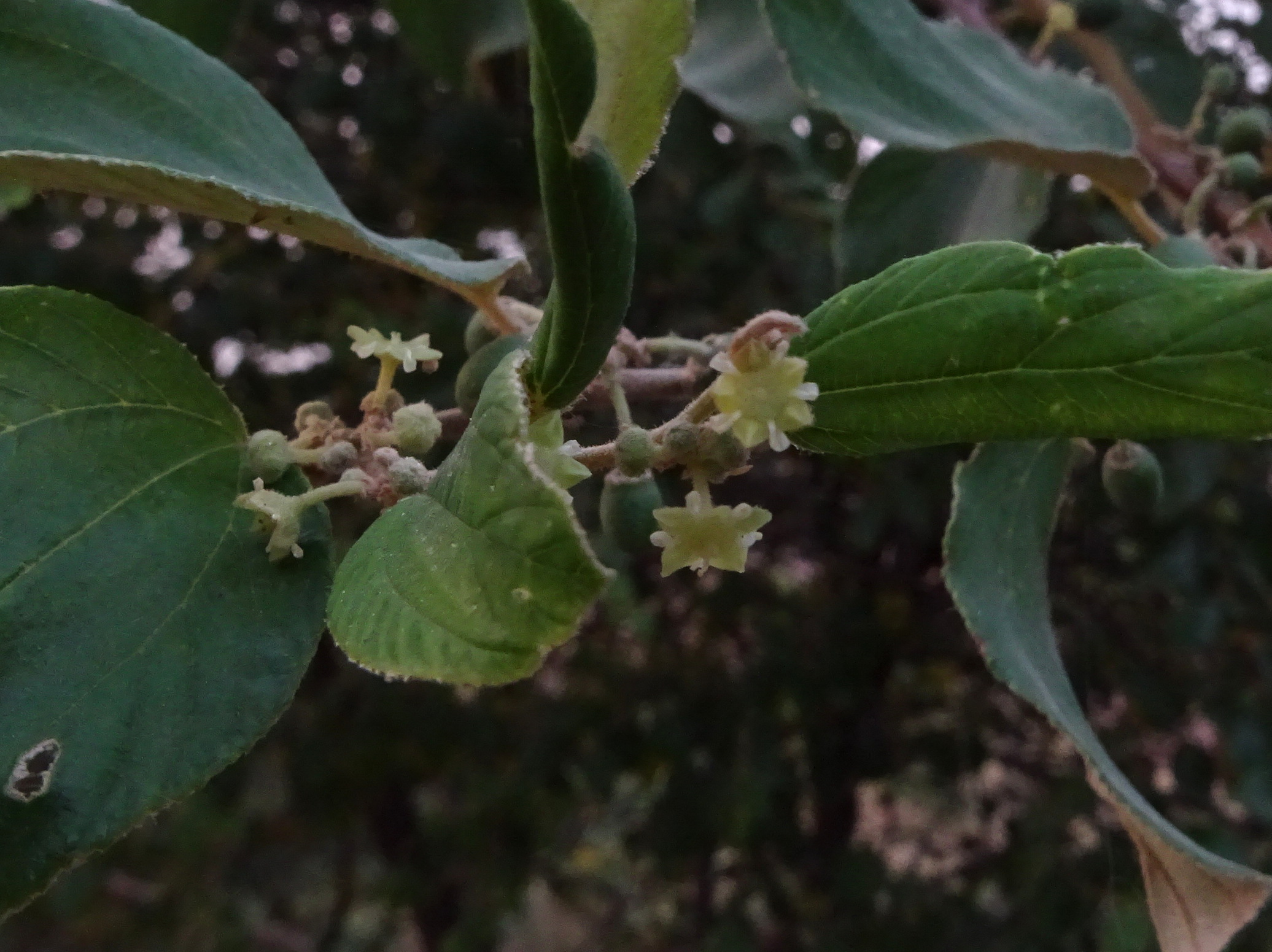 Ziziphus nummularia (jujube bush) seen in Jaisalmer desert park.